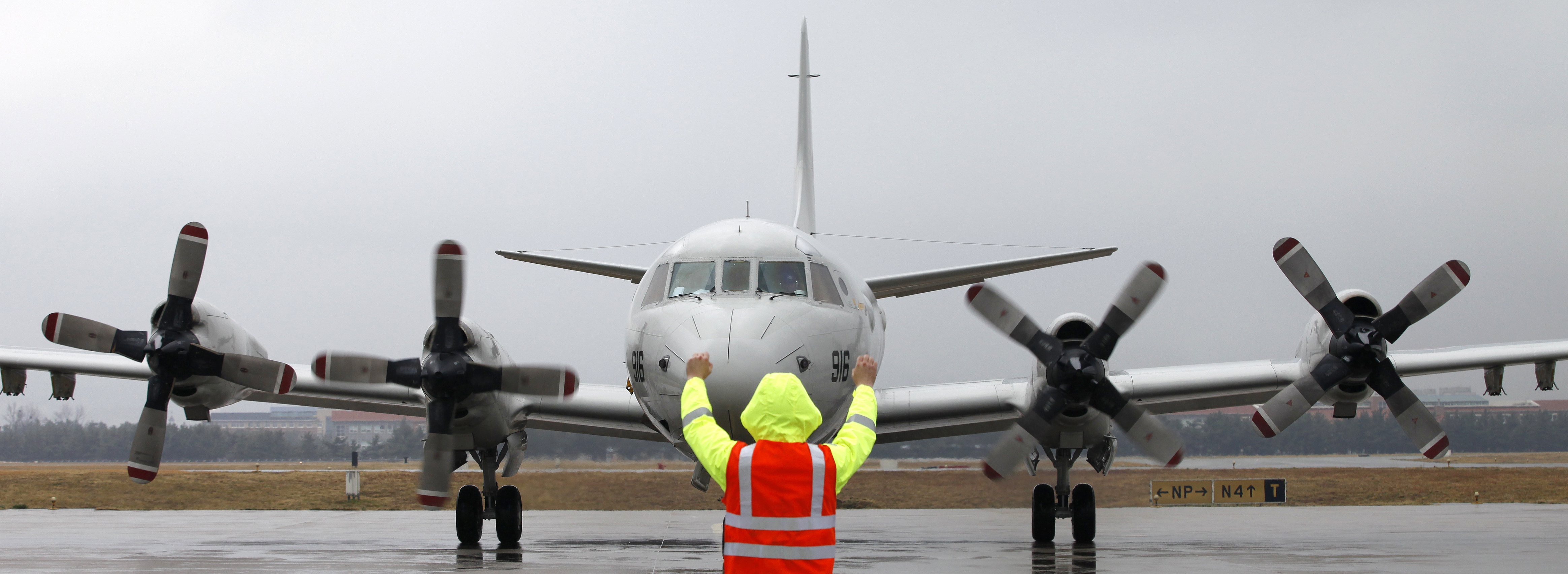 P3-C (maritime patrol aircraft), Republic of Korea Navy